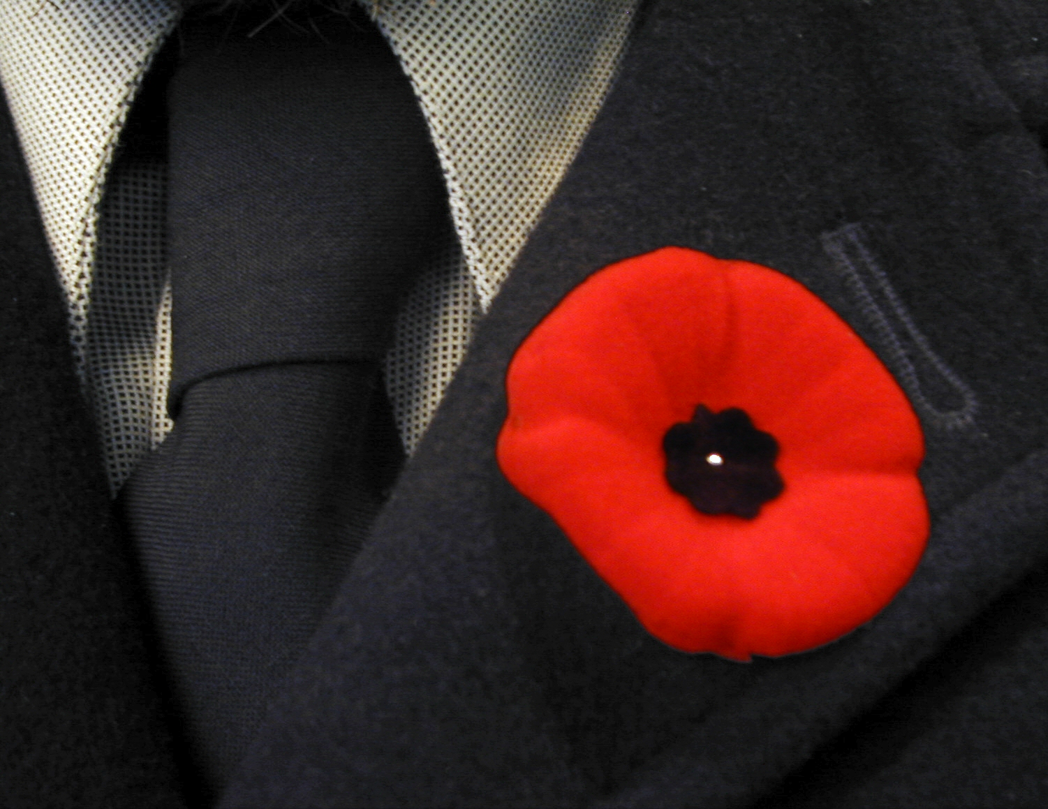 A remembrance poppy from Canada, worn on the lapel of a men's suit. In many Commonwealth countries, poppies are worn to commemorate soldiers who have died in war, with usage most common in the week leading up to Remembrance Day (and Anzac Day in Australia and New Zealand). The use of the poppy was inspired by the World War I poem In Flanders Fields, written by Canadian physician and Lieutenant Colonel John McCrae.